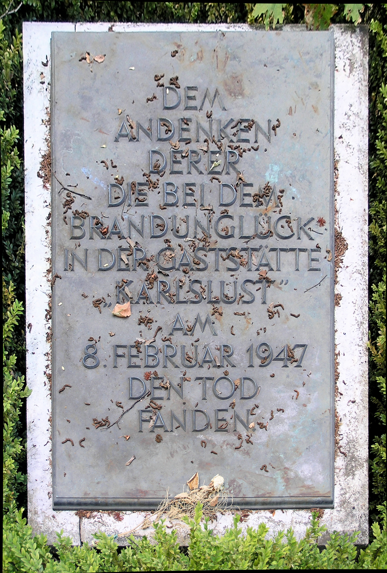 Memorial plaque, Vergnügungslokal Karlslust, Pionierstraße 82, Berlin-Falkenhagener Feld, Germany